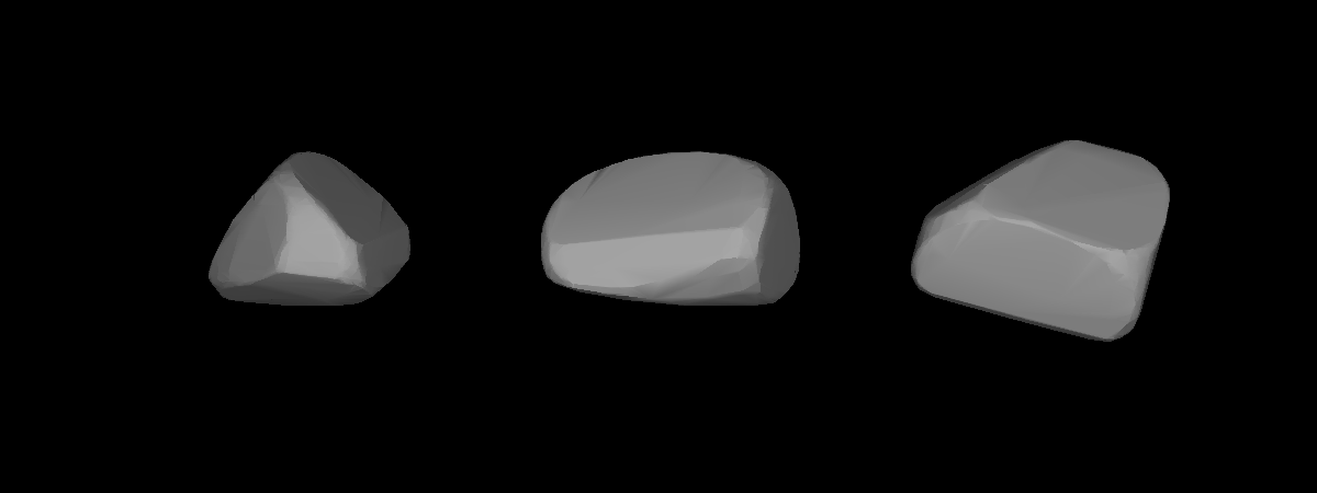 A three-dimensional model of 1389 Onnie that was computed using light curve inversion techniques.